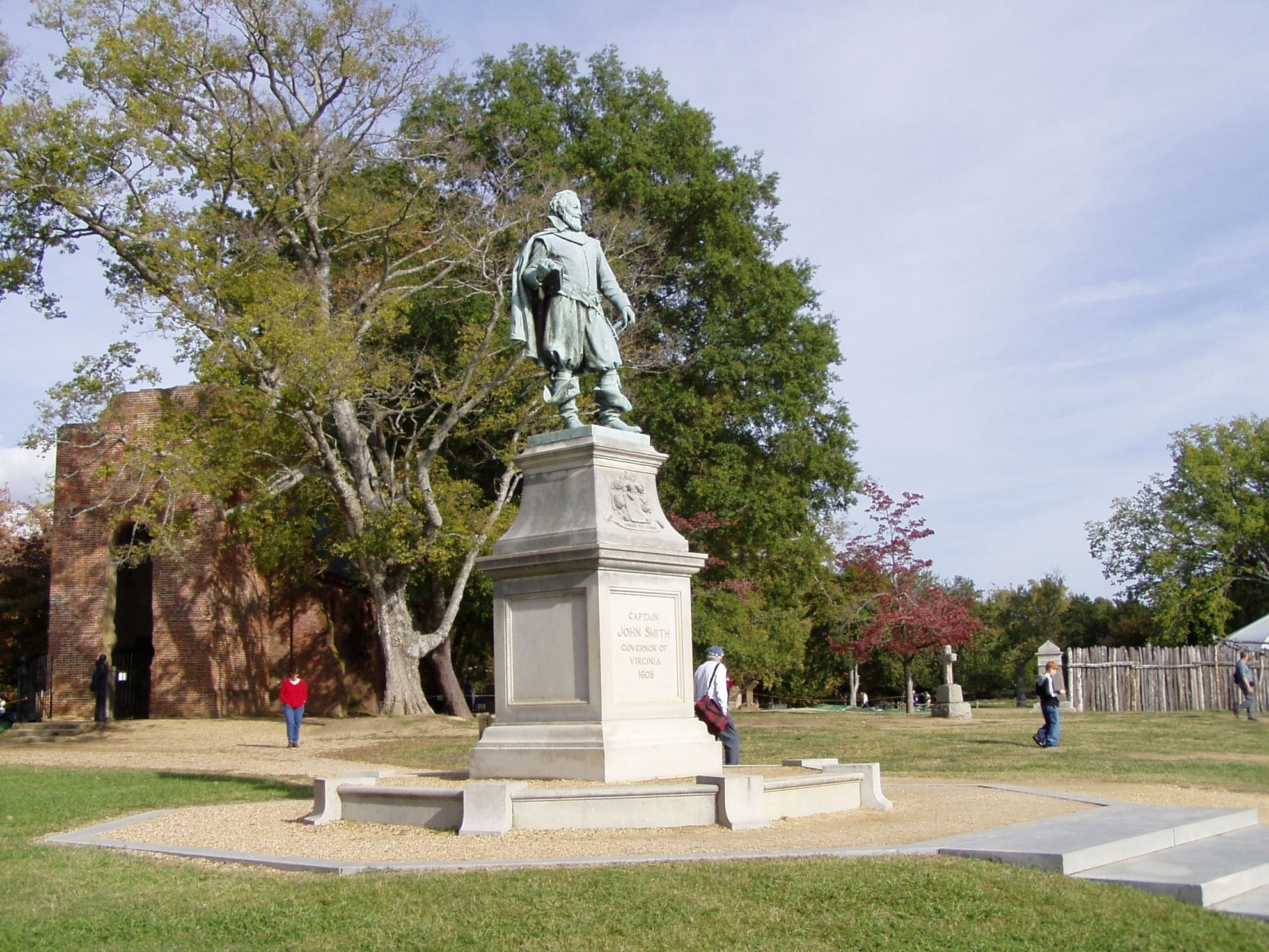 View of Jamestown Island today looking toward the statue of John Smith by William Couper [1] which was erected in 1909. The Jamestown Church, circa 1639, is in the left background.